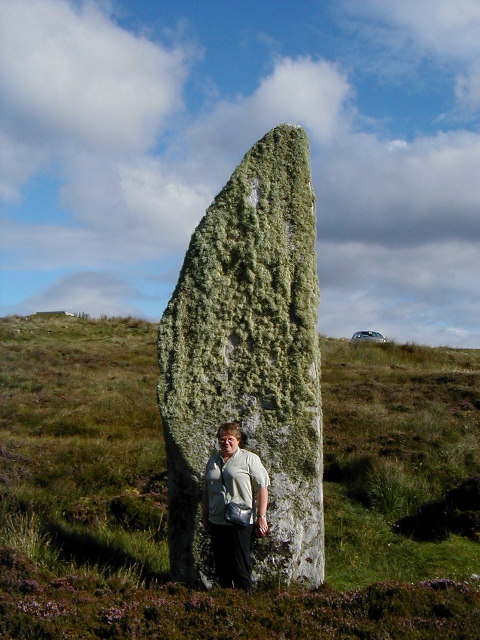 Beinn a' Charra Standing Stone. This 17 foot (5m) tall stone is probably from the 3rd Century BC